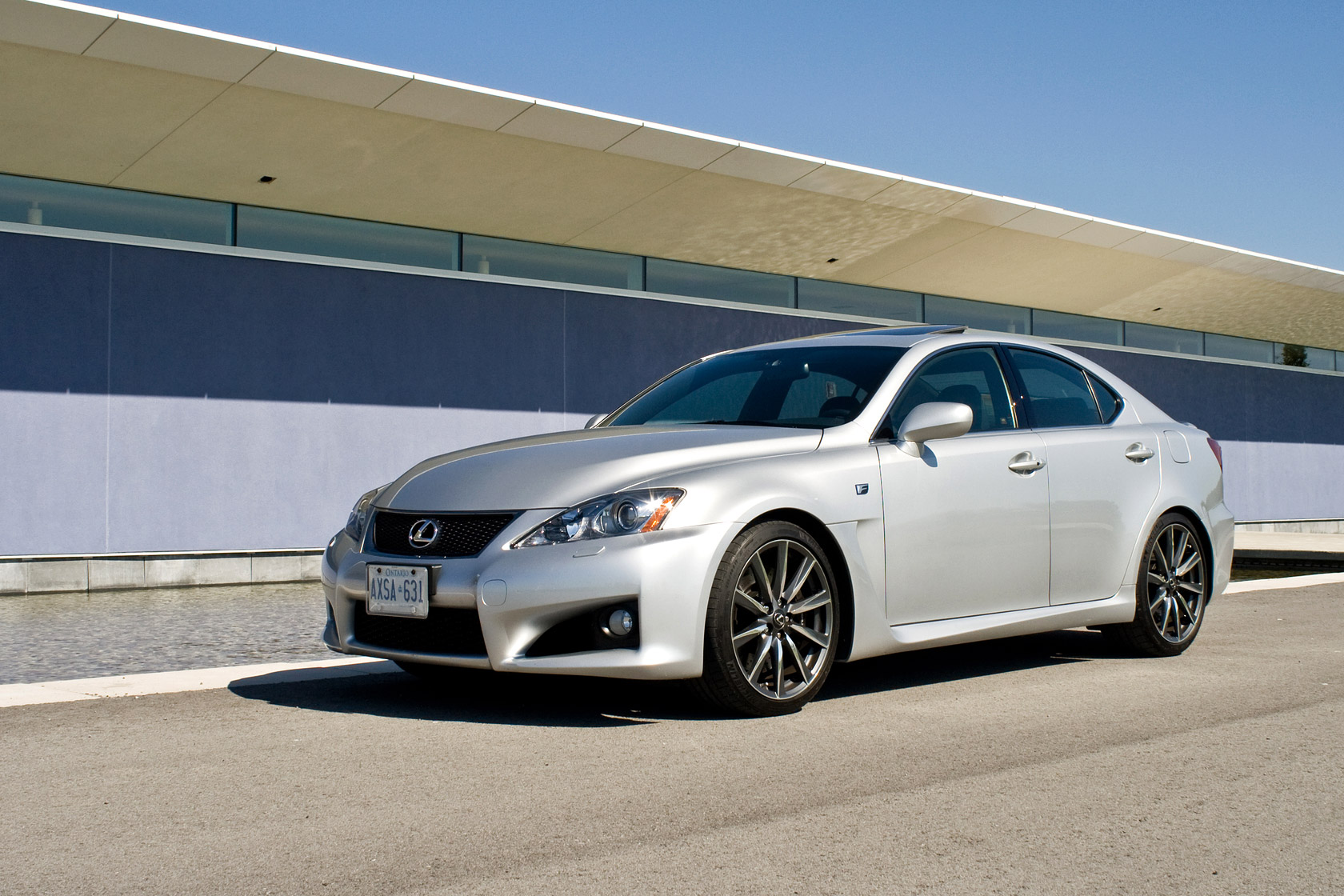 For Wikipedia.